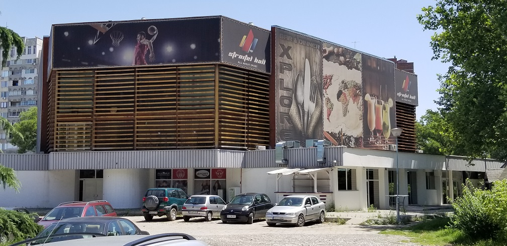 Stroitel Hall in Plovdiv